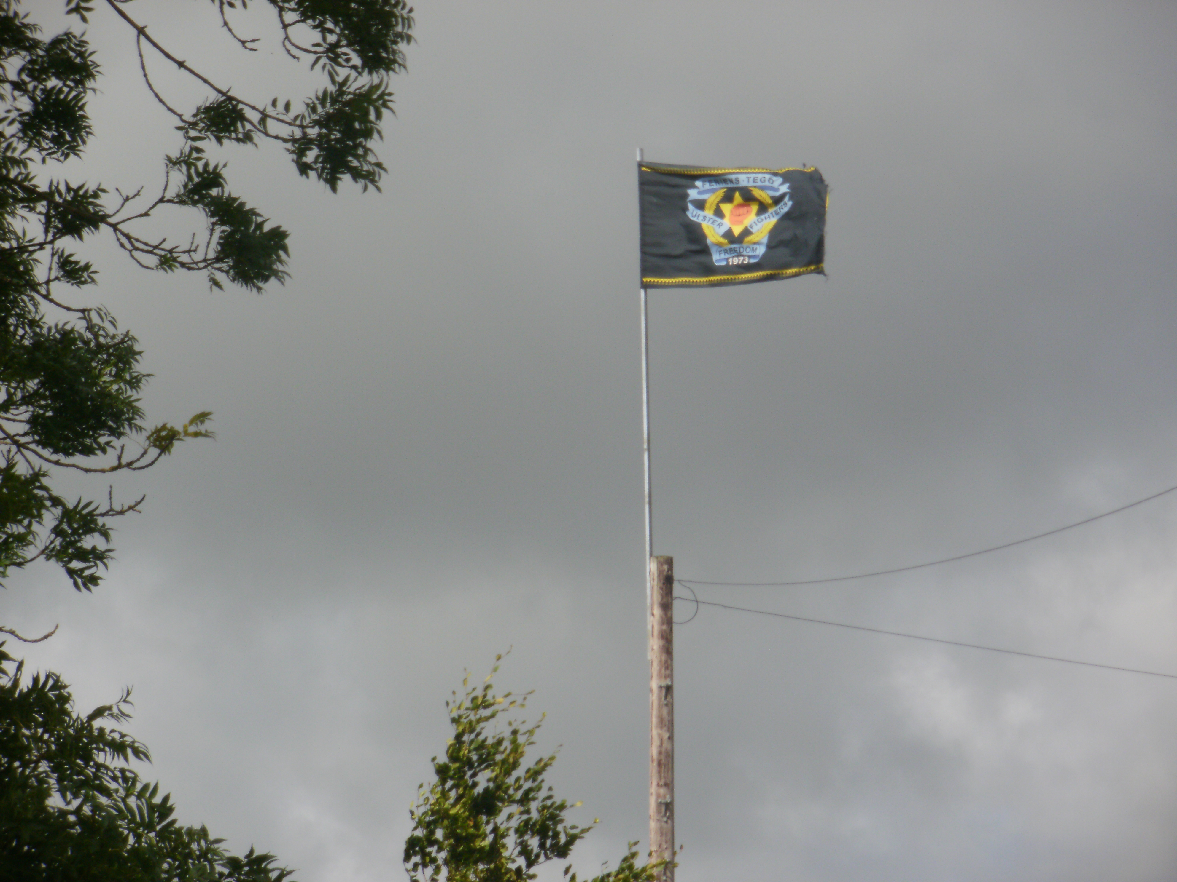 The flag of the loyalist paramilitary group the UFF(Ulster Freedom Fighters) in Finvoy,County Antrim.